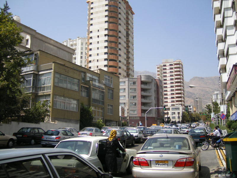 Quartier de Farmanieh